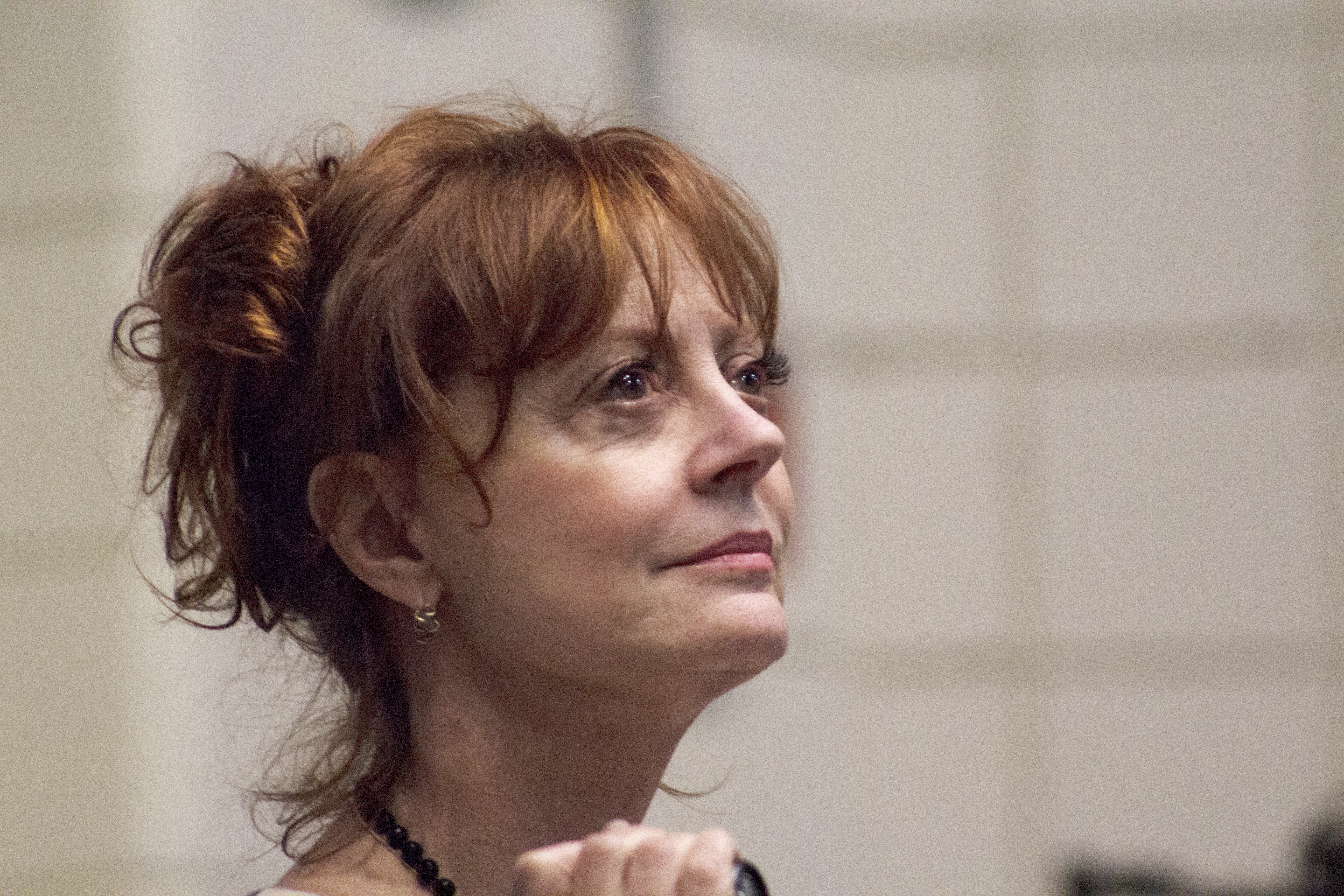 Campaigning for Bernie Sanders at The University of Maine. Original URL